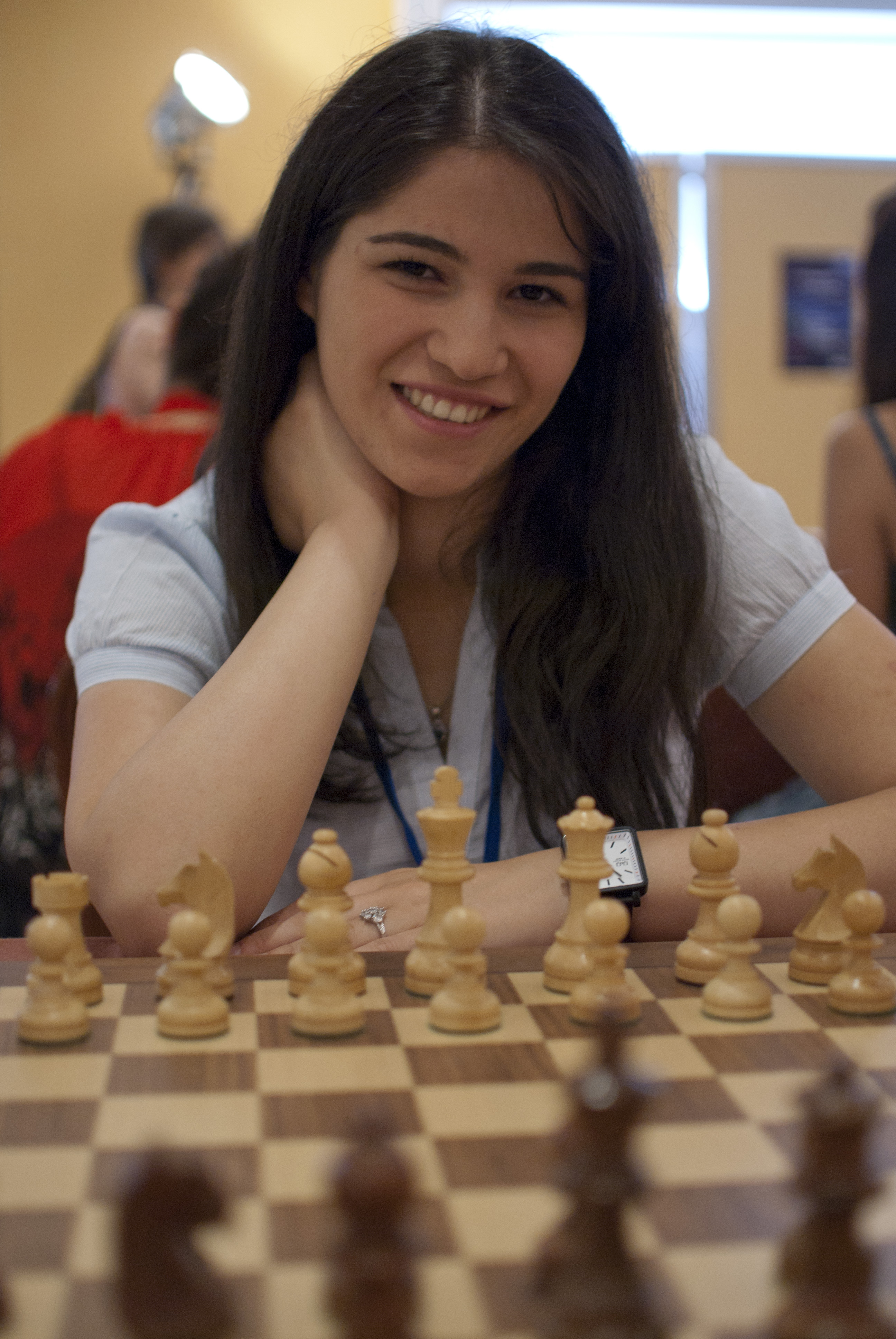 WIM Abdulla Khayala, WChJ Athens 2012